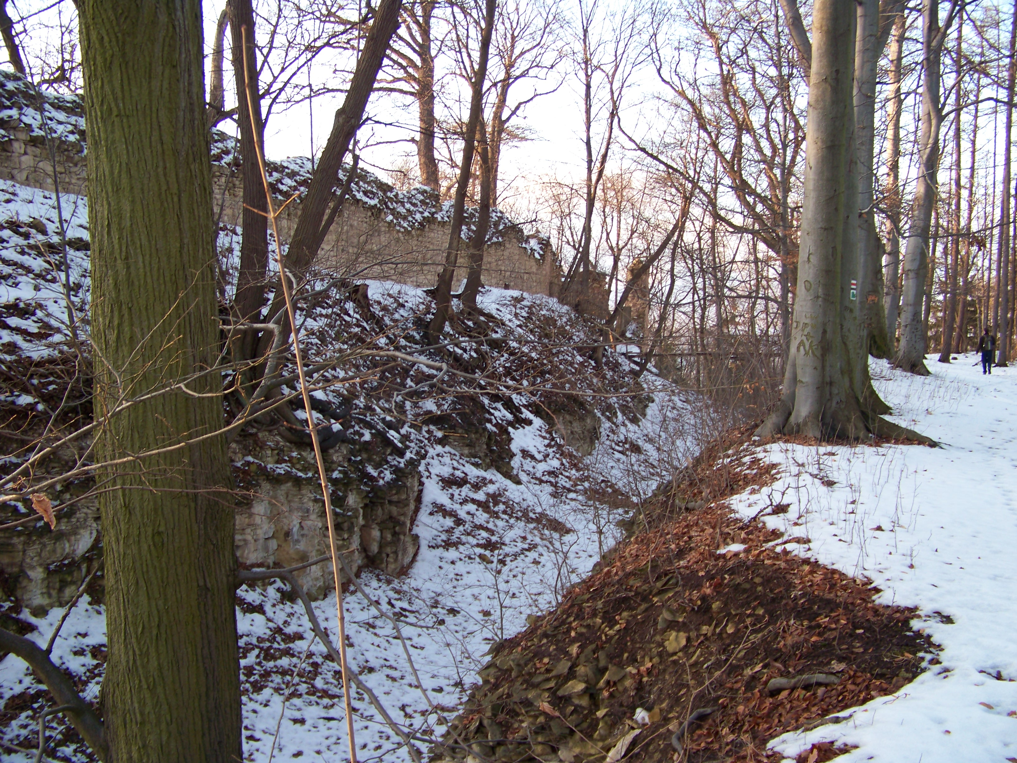 Ruin of Pravda Castle. Pnětluky, Louny District, the Czech Republic.